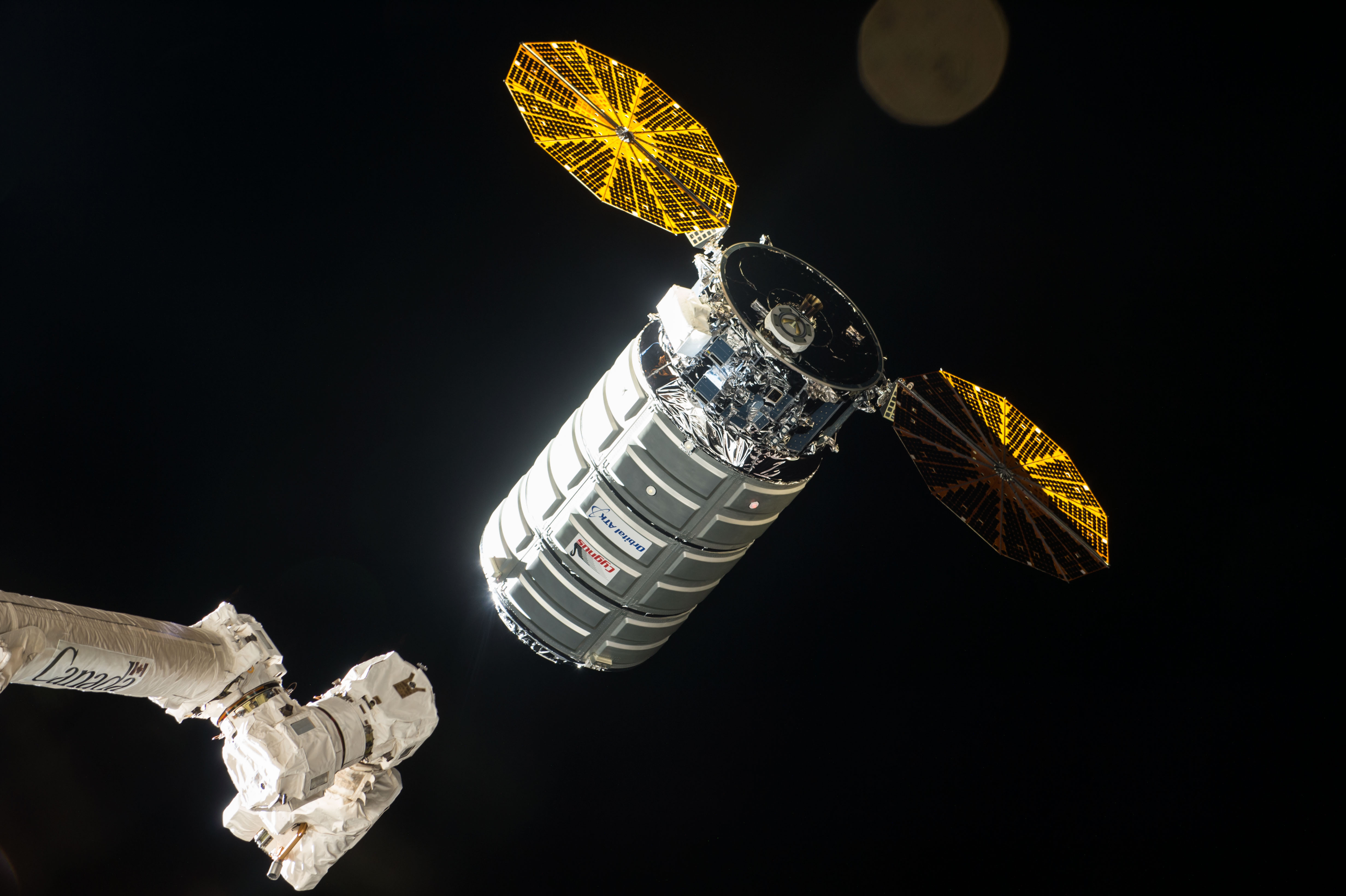 The Cygnus resupply ship from Orbital ATK approaches the International Space Station April 22, 2017, before its capture and installation to the Unity module with the Canadarm2 robotic arm.